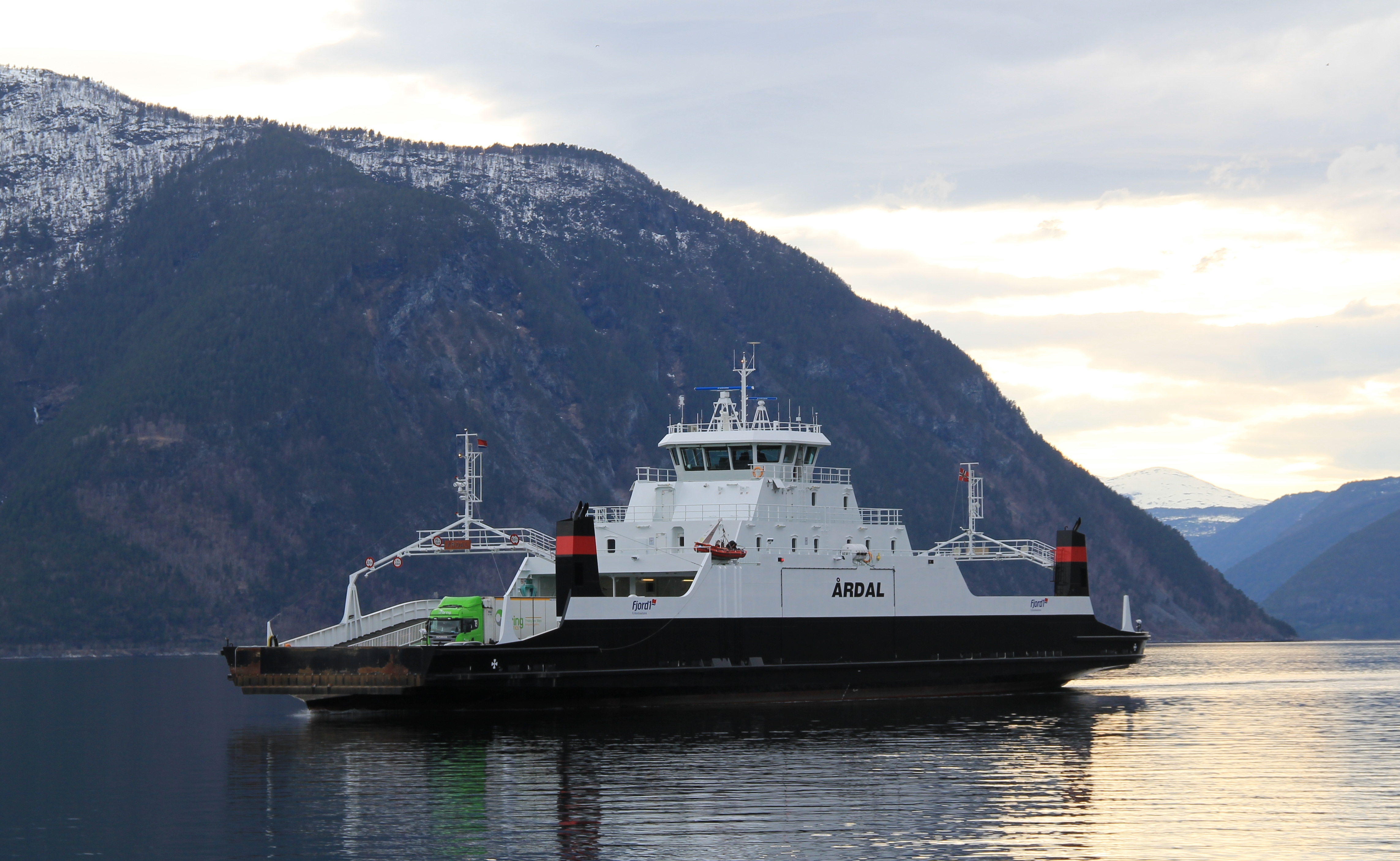 The ferry MF Årdal at Manheller-Fodnes, Norway.